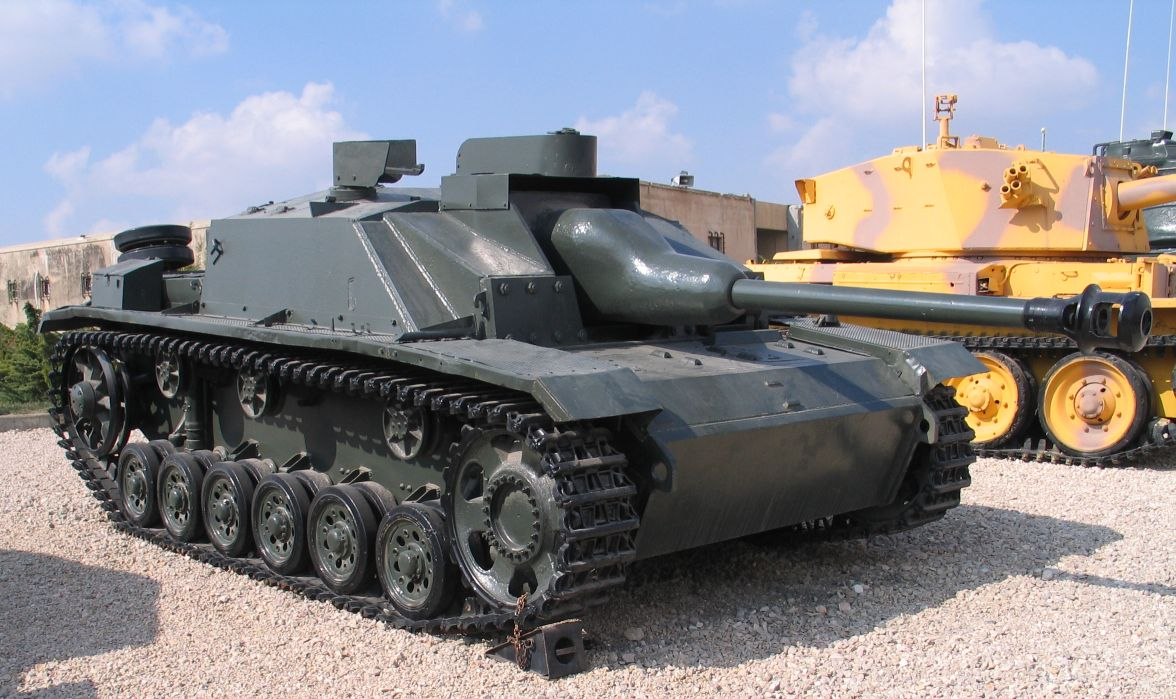 Sturmgeschütz III Ausf G, captured from the Syrian Army, in Yad la-Shiryon Museum, Israel.